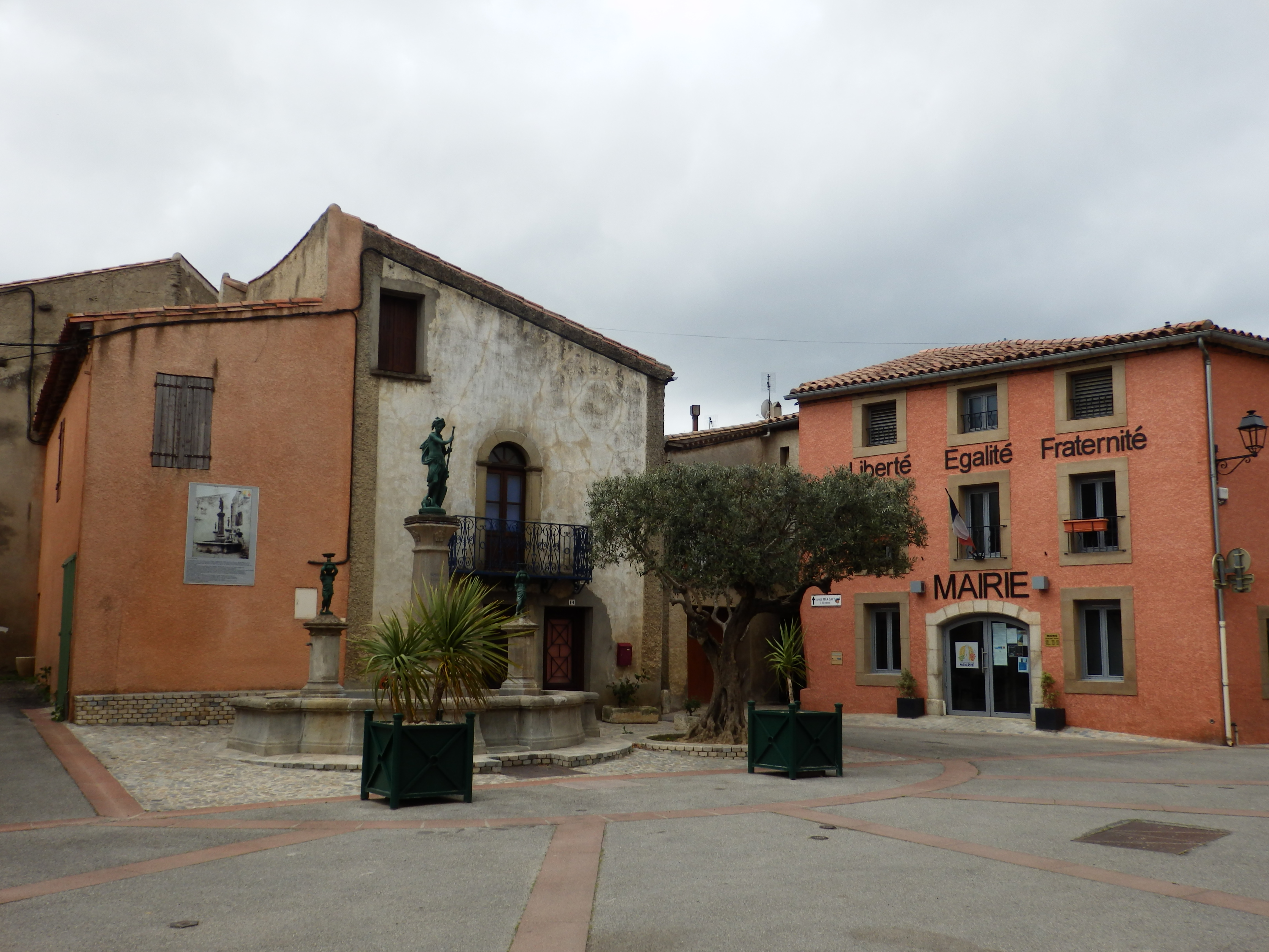 Magrie, Aude, France